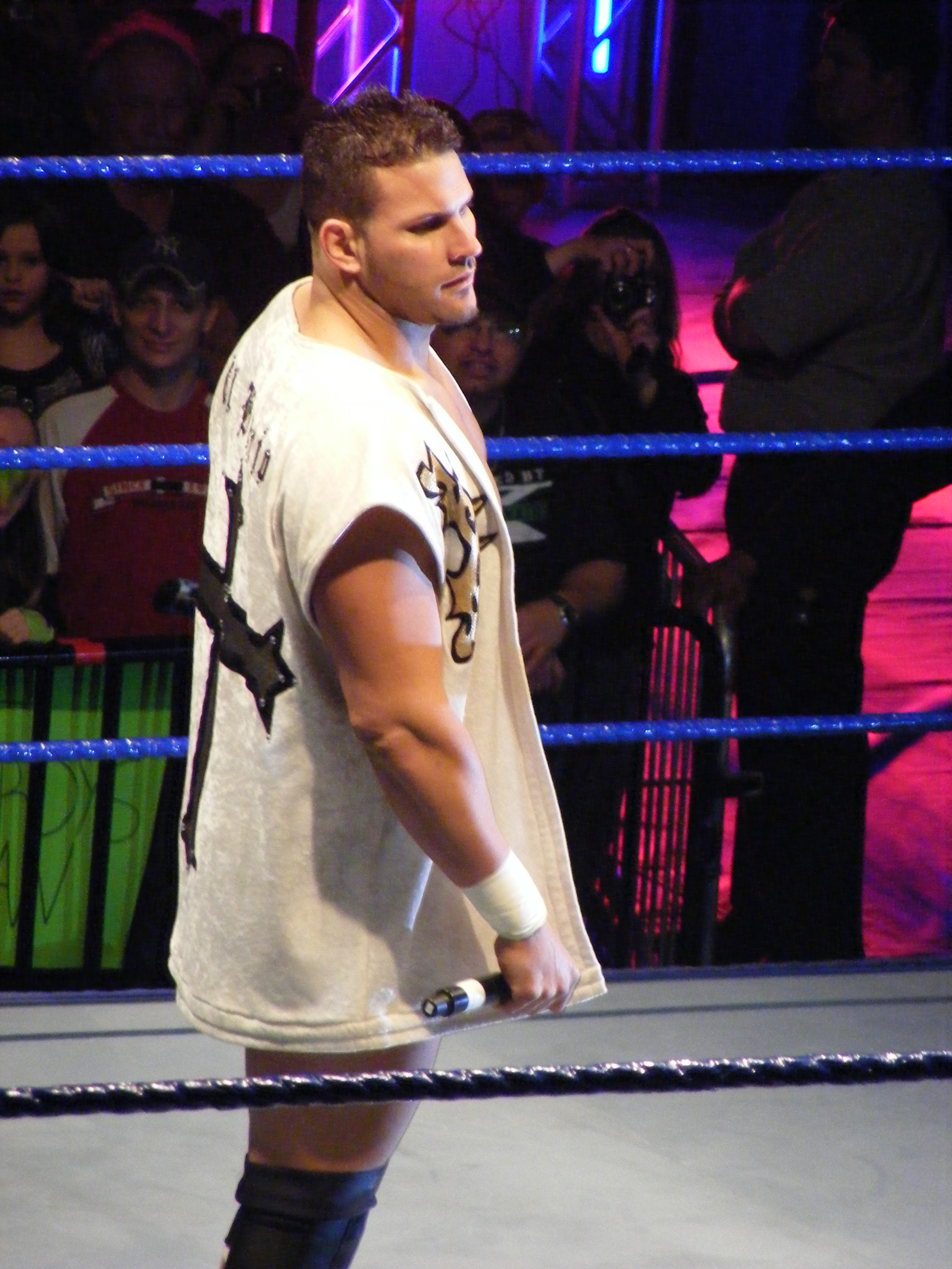 Professional wrestler Eric Escobar (real name Eric Perez) in the ring at a WWE show in February 2009.